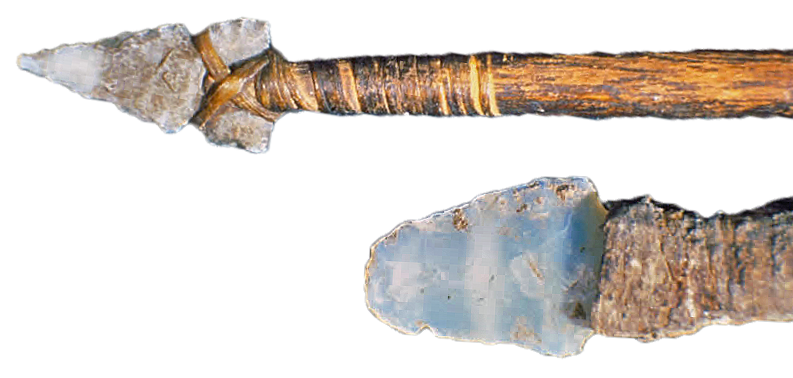 Hunting spear and knife, from Mesa Verde National Park.